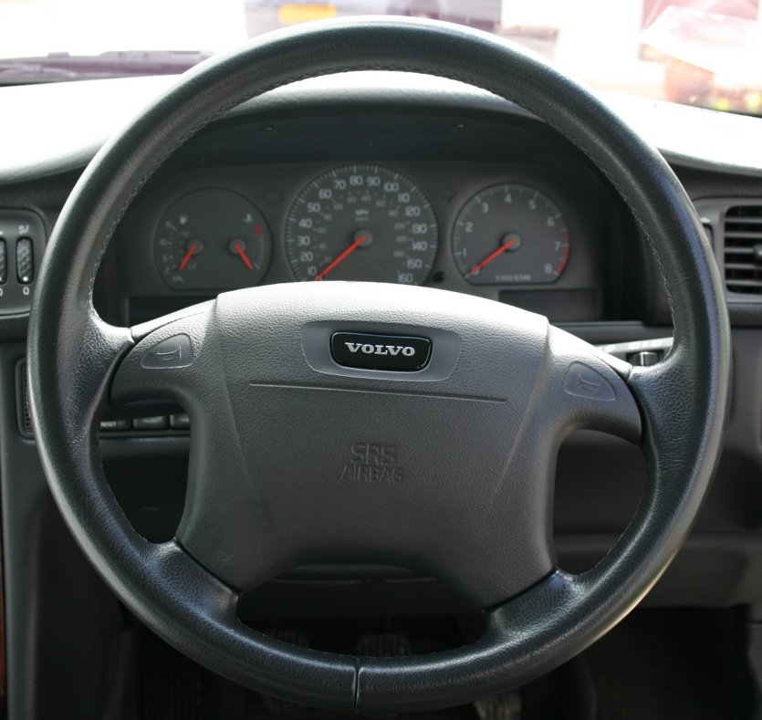 Photograph of the steering wheel of a 1998 Volvo V70